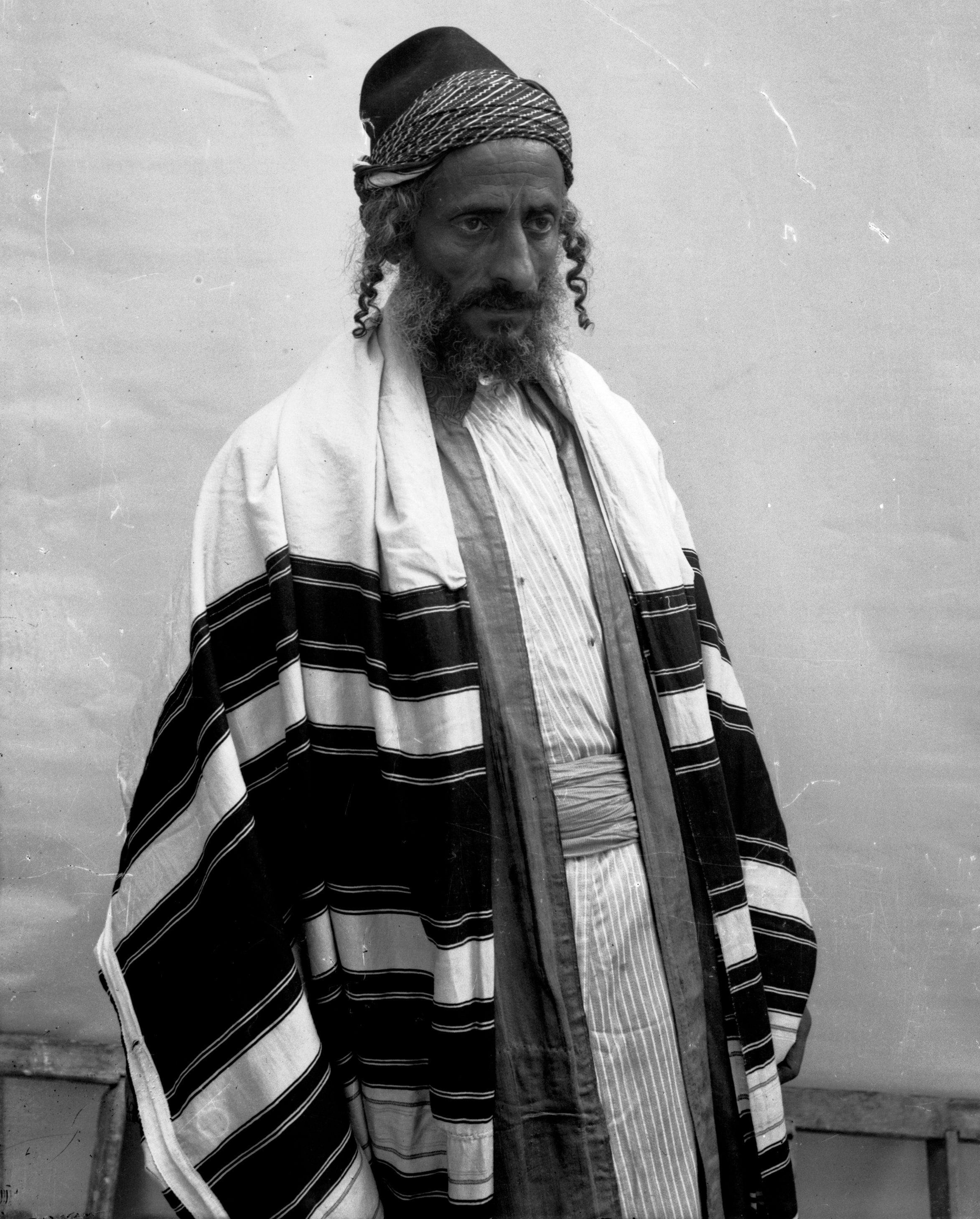 Various types, etc. Yemenite jew..